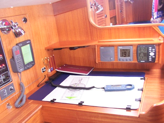 A photo of the chart table on a Hallberg-Rassy 36. From the left, Part of the electrical panel, with battery charger control below. DSC VHF handset Navtex Chart table light (black item folded under shelf) VHF speaker Seatalk/NMEA data display (speed, depth, etc) GPS On the table is a Yeoman electronic plotter, plus a transparent plastic "Breton" plotter. Photo by Pete Verdon.